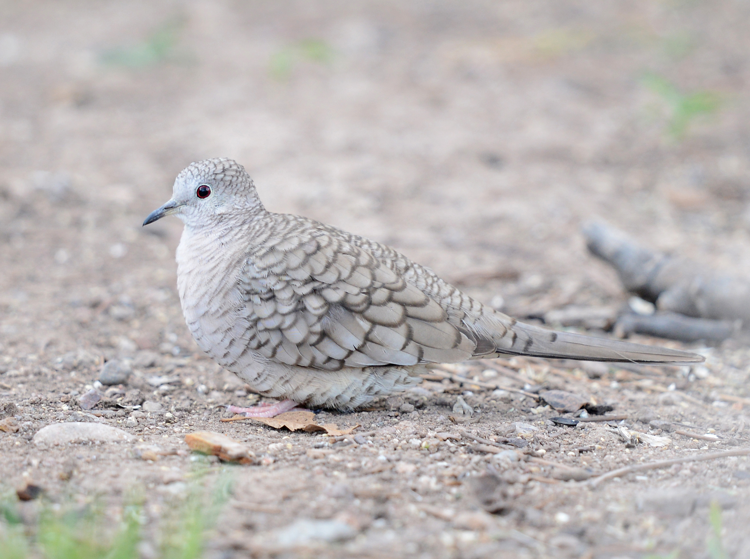 Inca Dove, southern Arizona